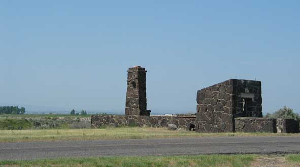 Ruins of the entrance station of "Minidoka Relocation Center", in Idaho, USA, an internment camp for Japanese Americans in World War II, now Minidoka National Historic Site